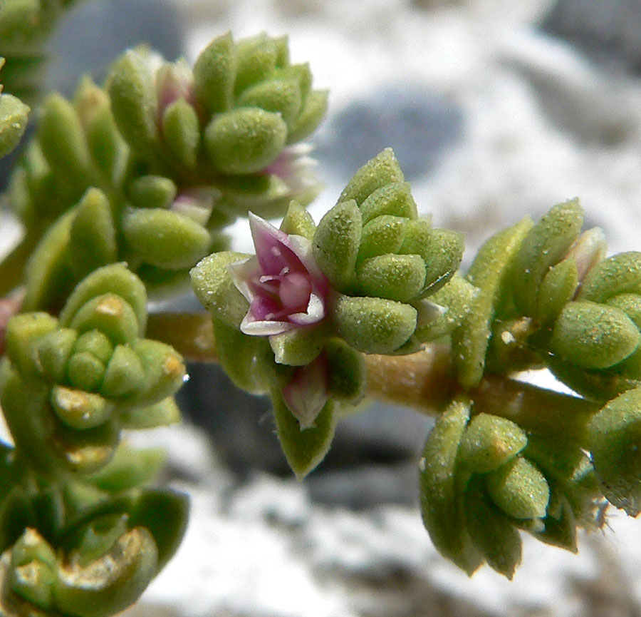 Nitrophila mohavensis — Amargosa niterwort, with flower. Endemic to the Amargosa Desert section of the Mojave Desert. In Carson Slough of the Amargosa River, south of State Line Road 2 miles east of Death Valley Junction, southeastern California.